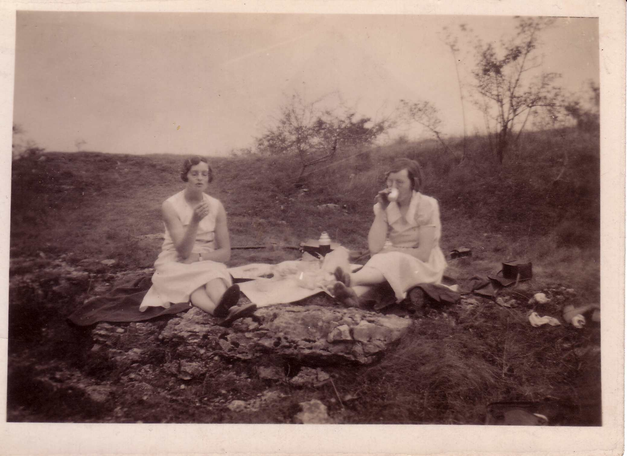 Women picnicking. Pecyn arall o luniau o fy nain, man nhad, Edith Mabel Davies nee Henshaw. Mae'r rhan fwya o'r lluniau 'ma o'r 1930au, pan oedd hi'n byw yn Pentre, ger Y Waun. Wna i ychwanegu mwy o fanylion pan caf i amser. Another pack of photos of my maternal grandmother. Most of these are from the 1930s, with obvious exceptions. I'll add more details to individual pictures when I get time.